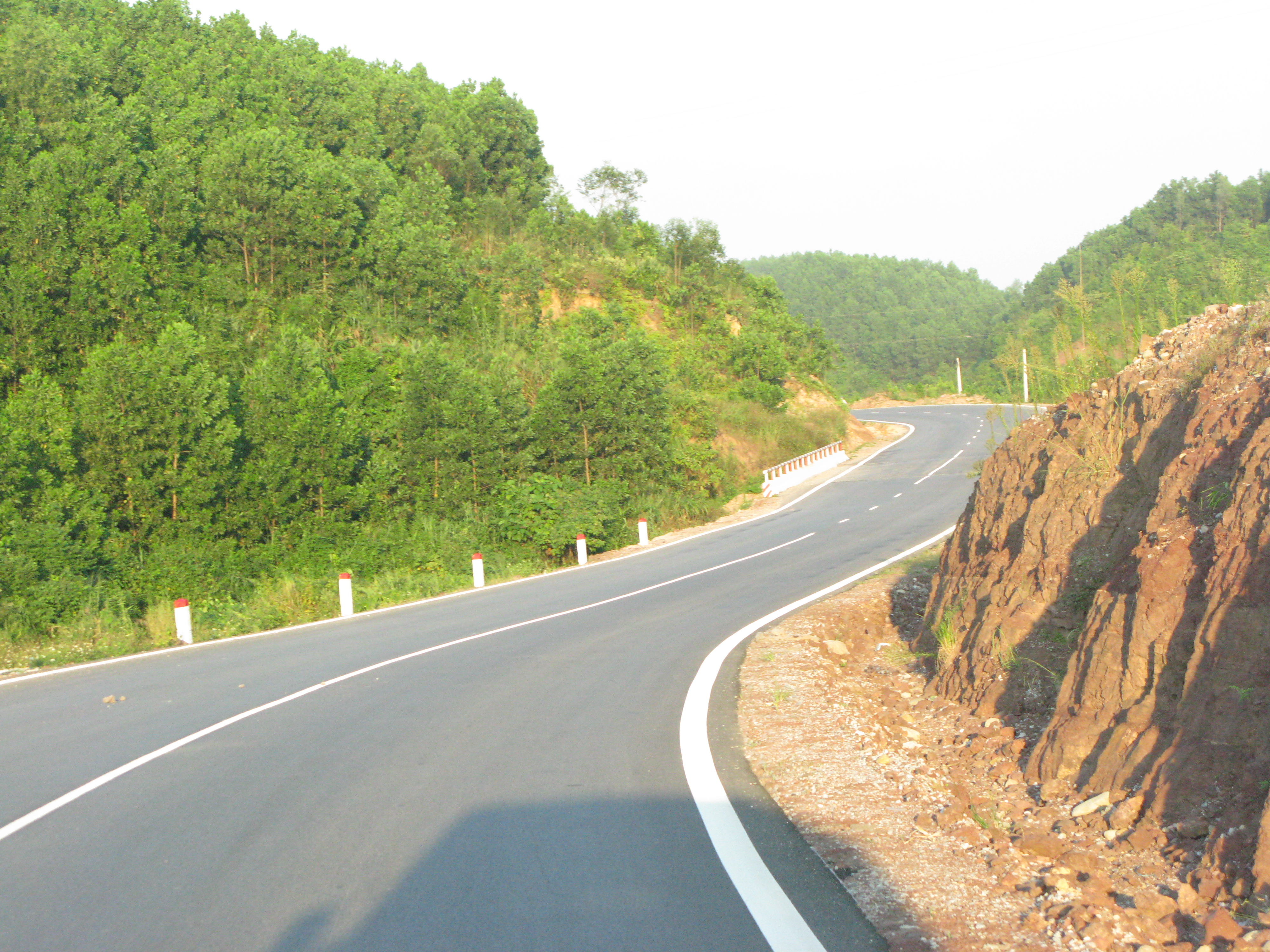 National Highway 18 acrosses Hải Hà District, Quảng Ninh Province, Northeast of Việt Nam